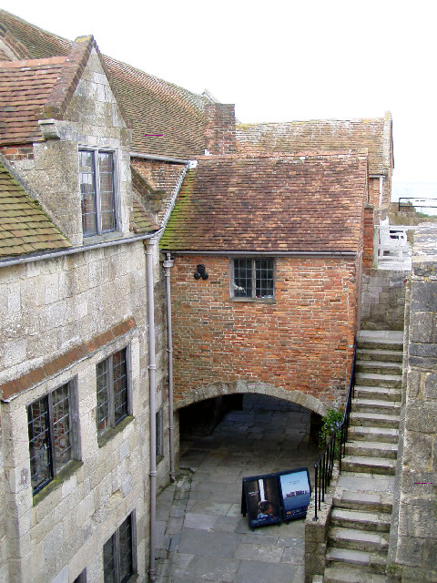 Yarmouth Castle. Small, but perfectly formed.